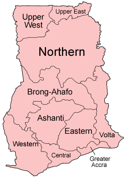 Map of the regions of Ghana, named in English (native language). The individual maps are: Ashanti Brong-Ahafo Central Eastern Greater Accra Northern Upper East Upper West Volta Western